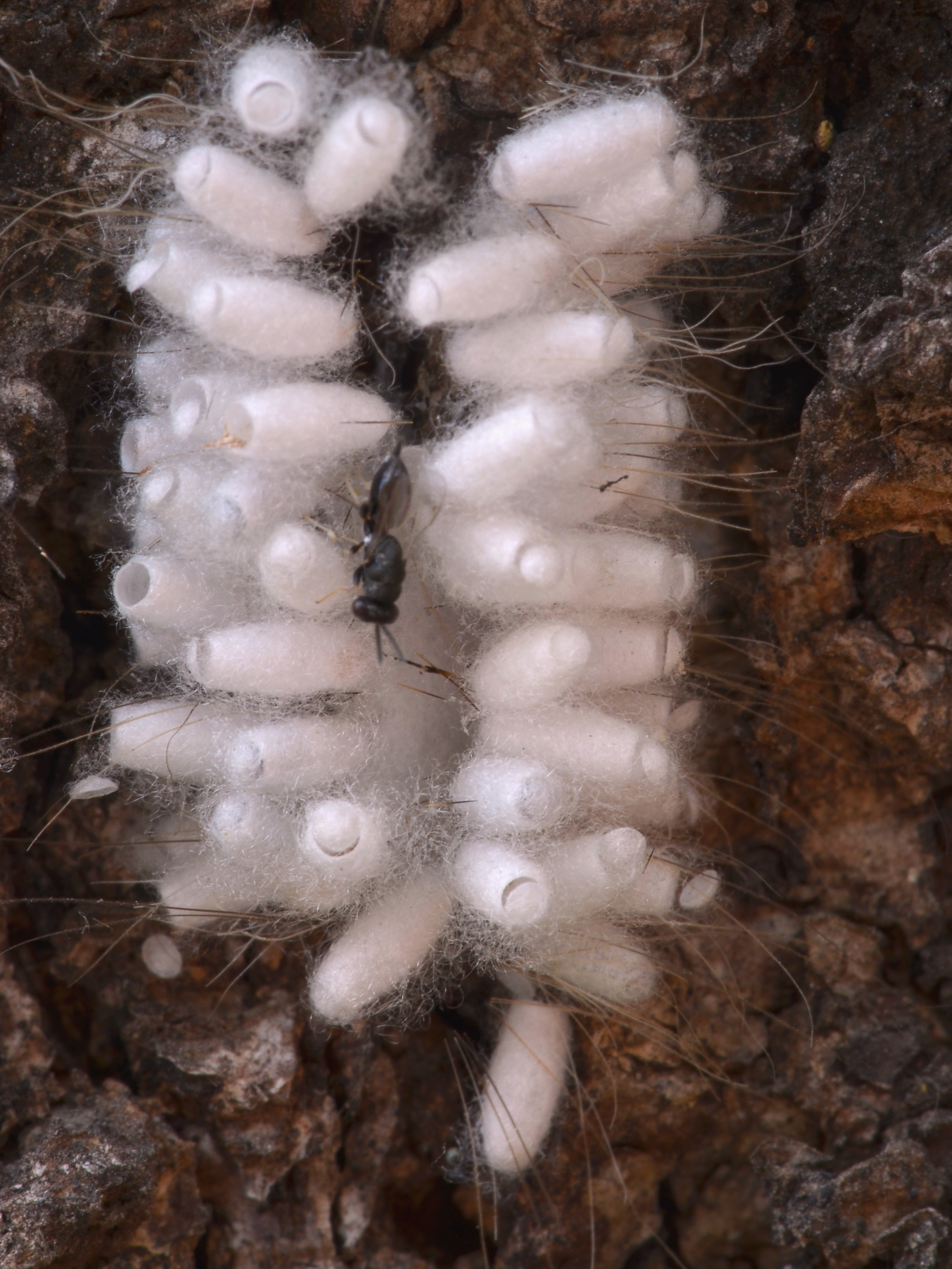 A hyperparasitoid chalcid wasp (fam. Pteromalidae) on the cocoons of its host, a braconid wasp (probably Cotesia or Apanteles of the subfamily Microgastrinae) which is itself a koinobiont parasitoid of Lepidoptera. The whole setup at Lake Malawi National Park. Cape Maclear, Malawi. Ecology corroborated and taxonomy courtesy of Simon van Noort PhD, Curator of Entomology, Iziko South African Museum.